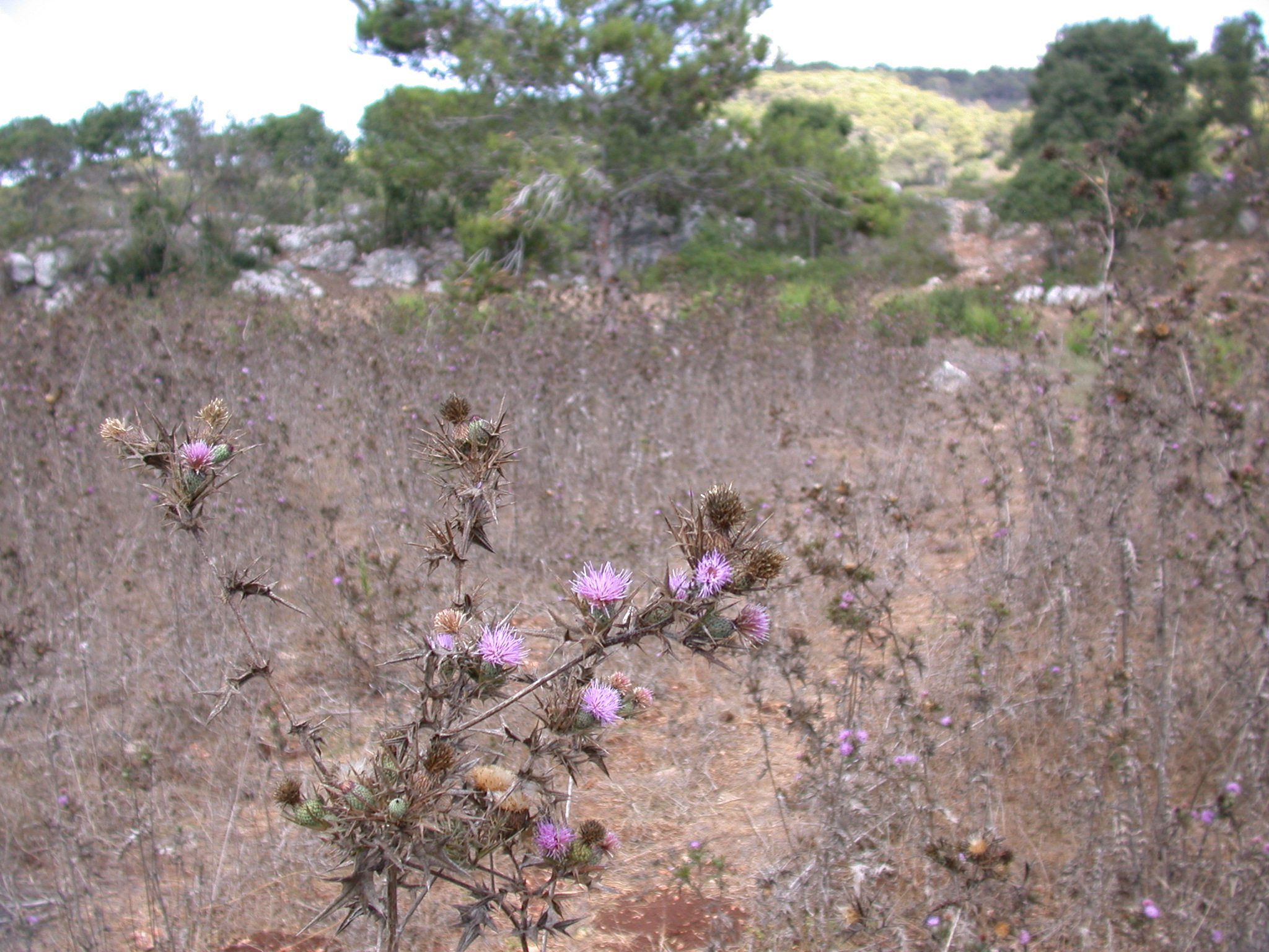 Cirsium phyllocephalumBoiss. & Blanche (קוצן קיפח), Mount Carmel, Israel, September 2006.